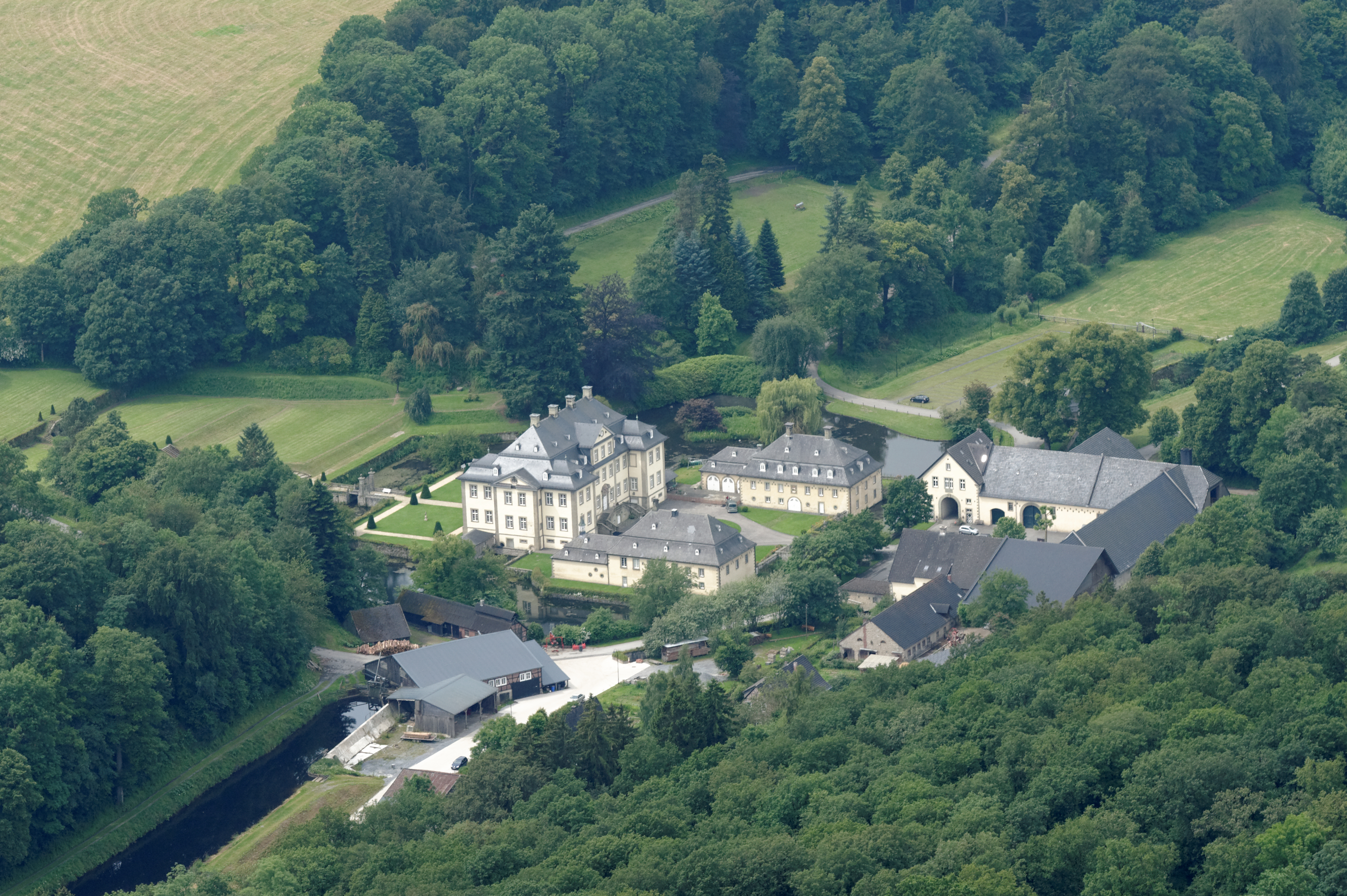 Rüthen: Schloss Körtlinghausen (Fotoflug Sauerland Nord) The making of this document was supported by the Community-Budget of Wikimedia Germany.